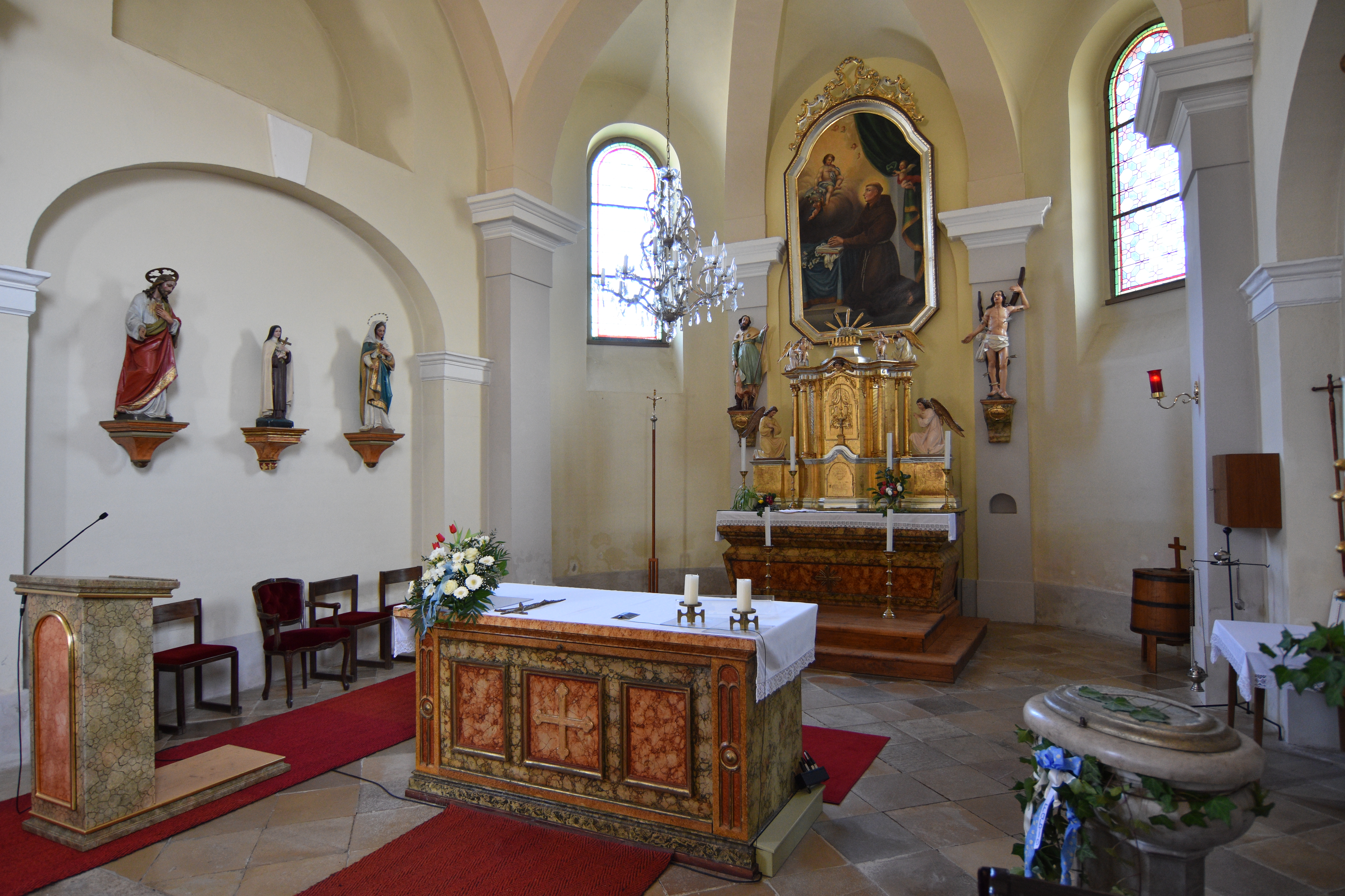 Church Strem Interior